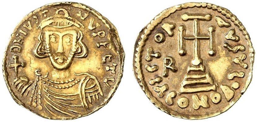 LANGOBARDEN, Benevent. Romoald II, 706-731 . Solidus im Namen des Justinianus II. 3,86 g Vorderseite: DN IVST – VVPPETV. Drap. Büste mit Krone und Kreuzglobus en face. Rückseite: VICTOR – AVGVS / CONOB• Kreuz auf vier Stufen.